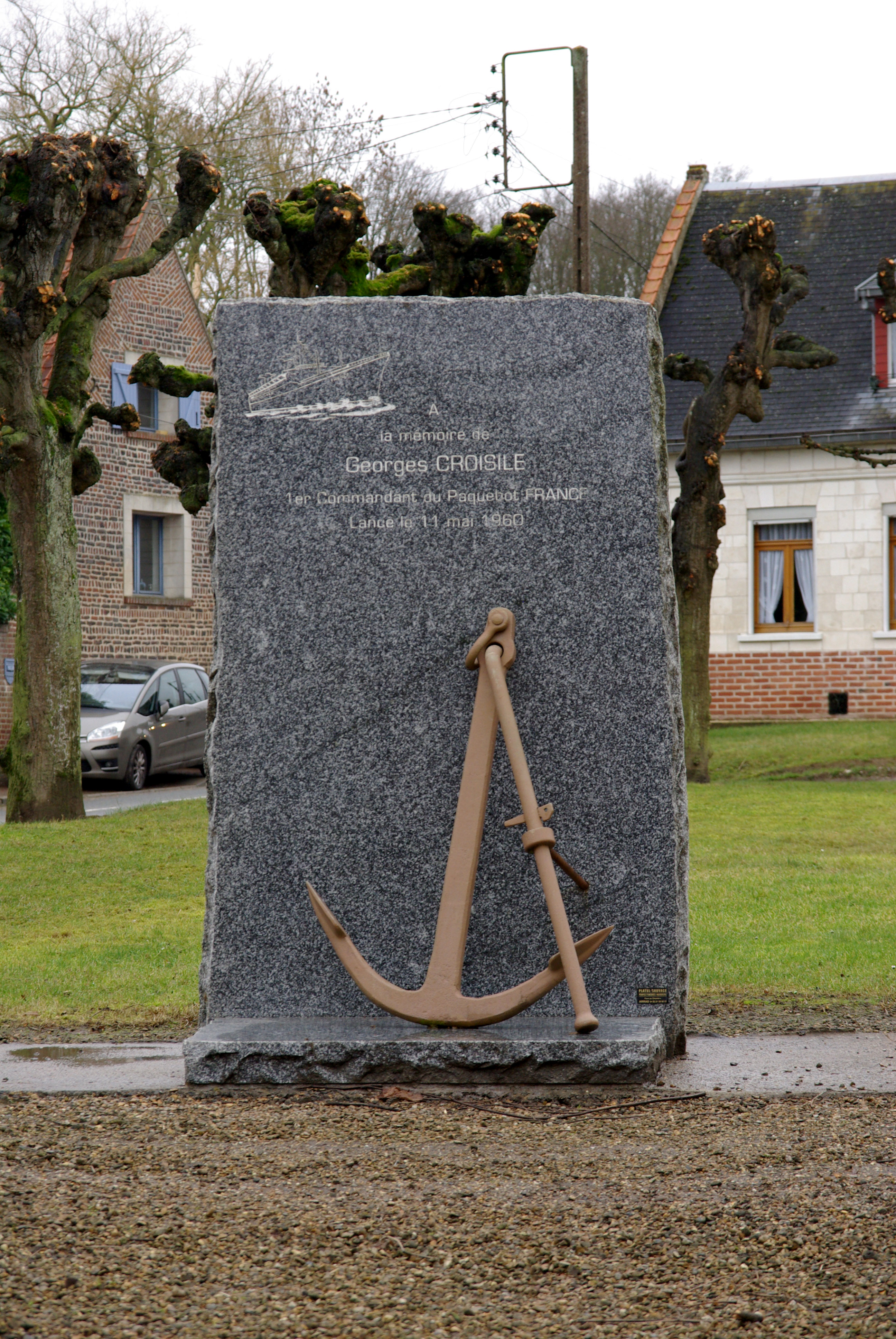 Monument in honor of Commander Georges Croisile